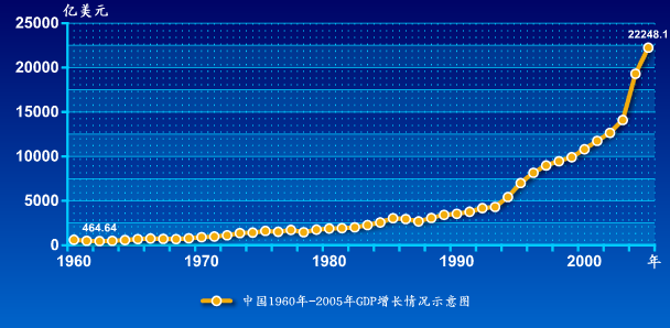 GDP of China from 1960 to 2005 Producer:枫难寻